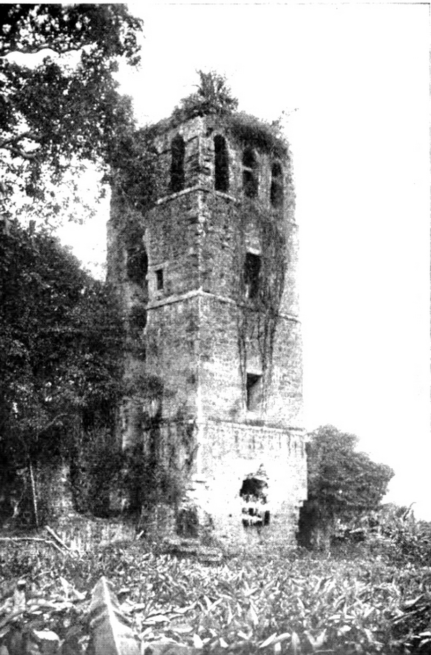 The name of the illustration is the same as the caption in this book about Panama and it's History (c) 1916